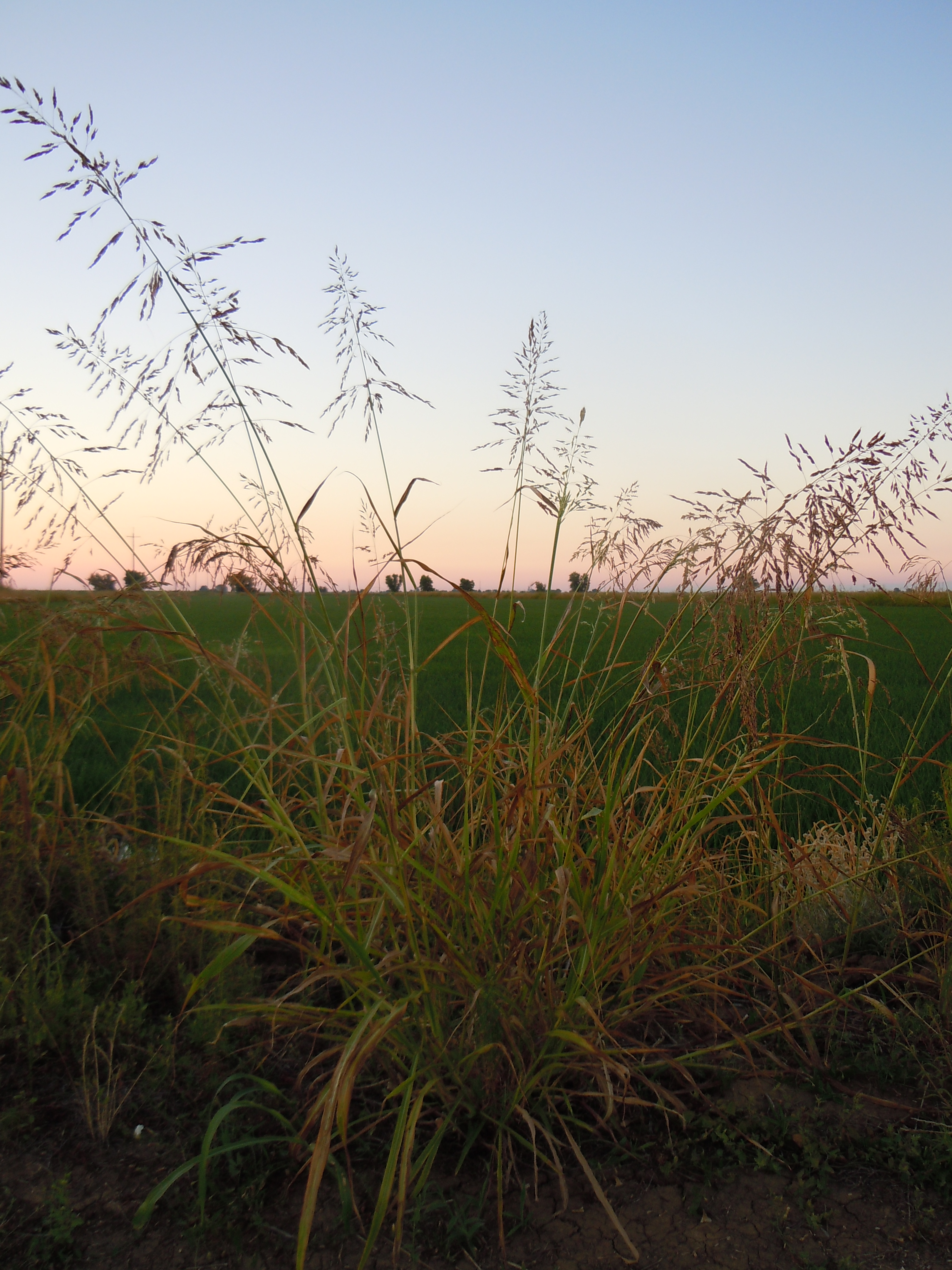 Sorghum halepense growing around a field of cultivated rice (Oryza sativa).